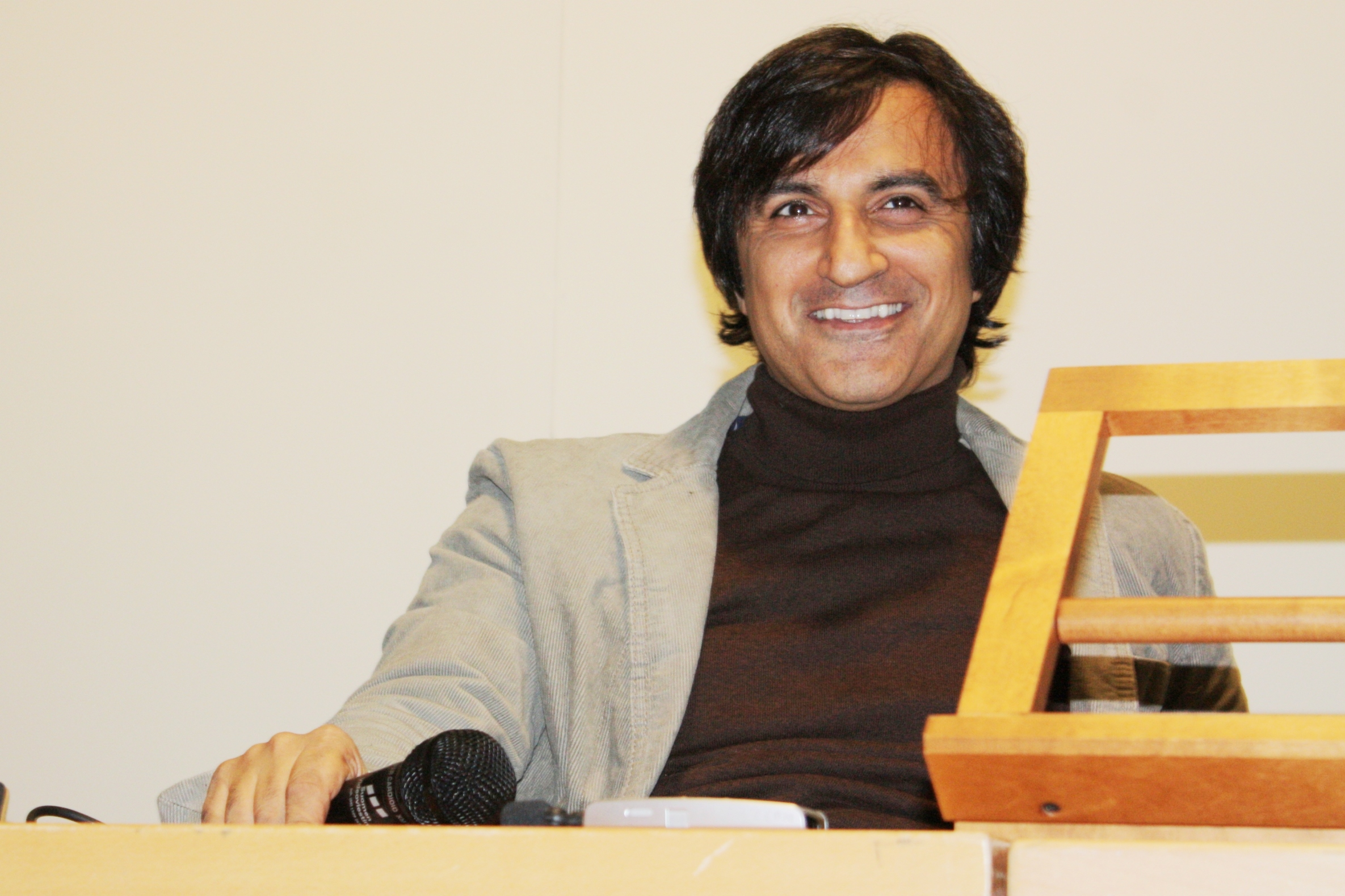 Swedish journalist and writer Nuri Kino at Helsinki Book Fair 2009